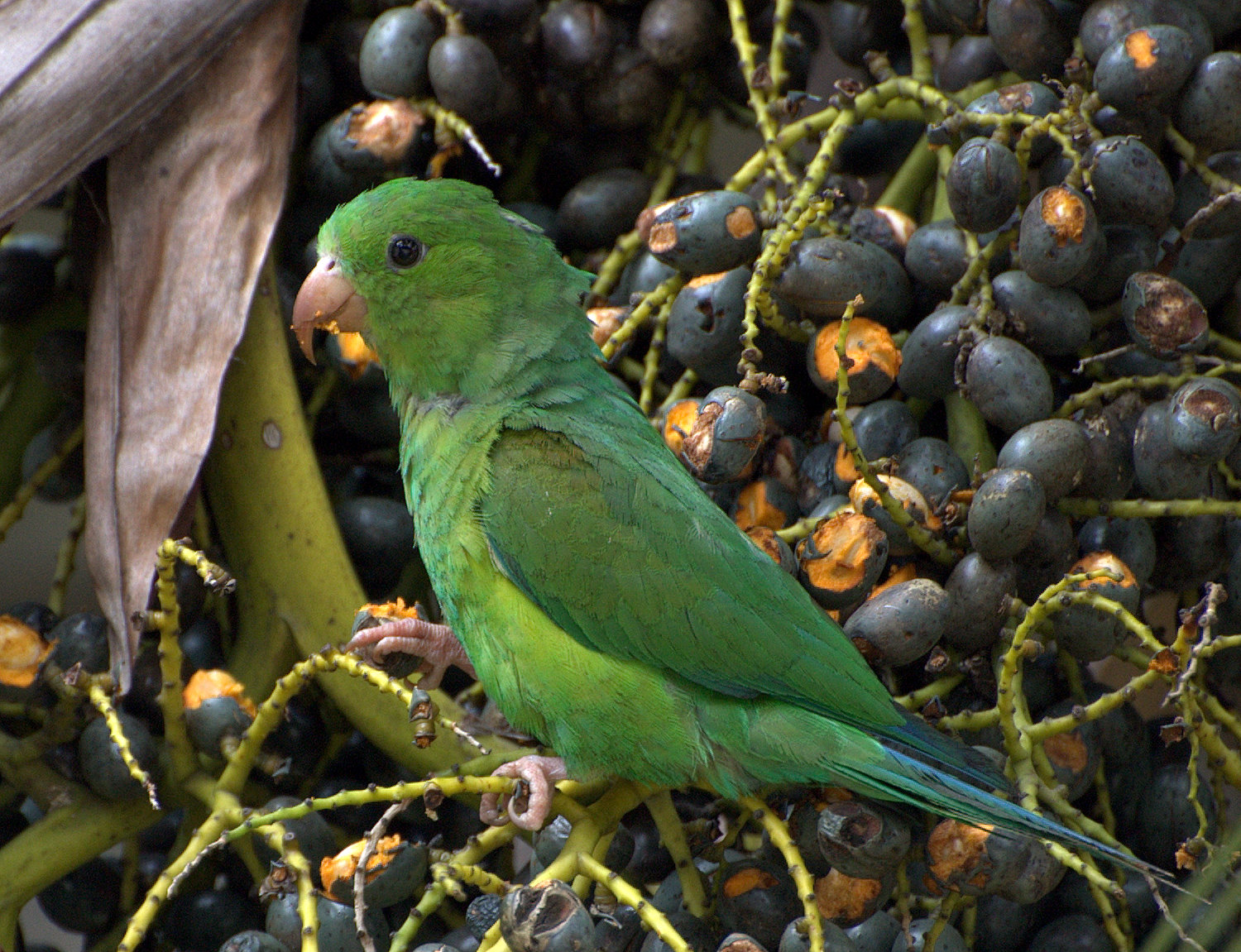 Plain Parakeet (Brotogeris tirica) eating fruit in a tree. Parque da Independência, Museu do Ipiranga, São Paulo